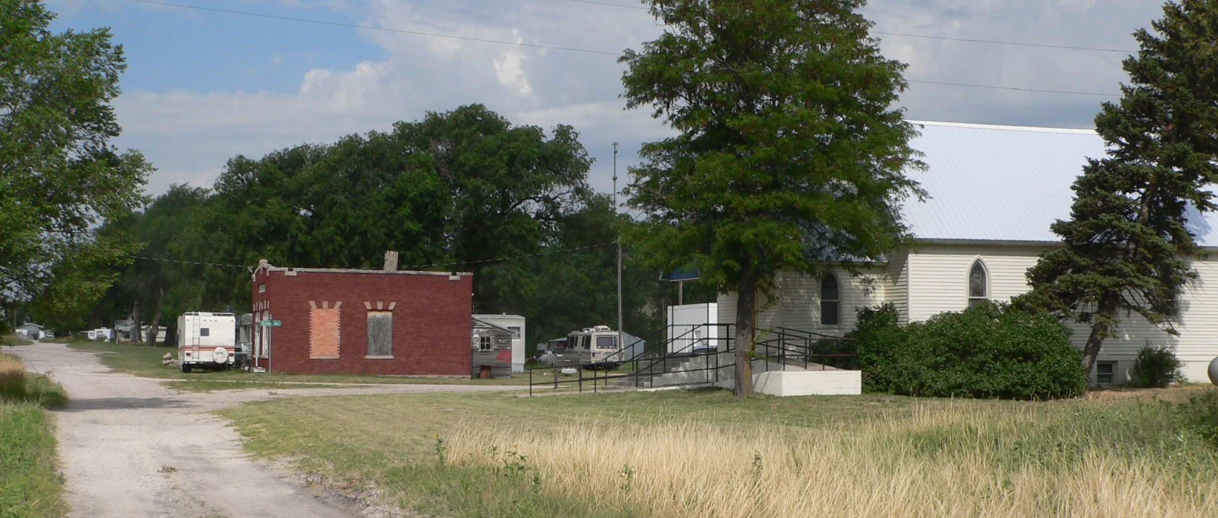 Bingham, Nebraska: looking westward along First Street toward McAdoo Avenue.